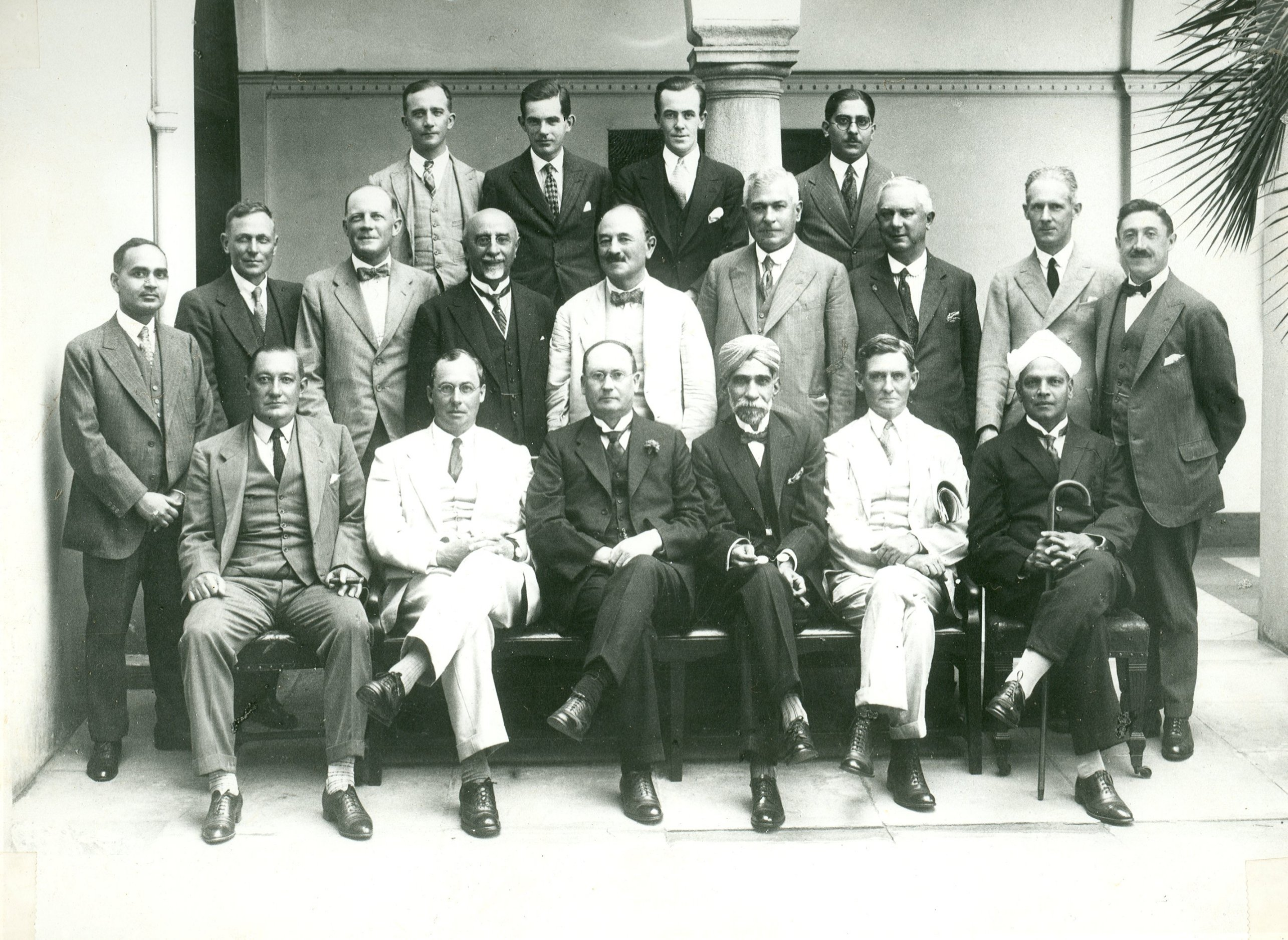 India Conference 1926 in South Africa